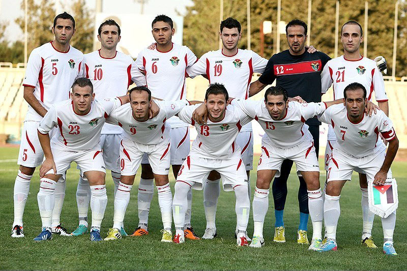 Football match between Jordan national football team and Syria national football team in Shahid Dastgerdi Stadium, Tehran (neutral field). 2015 AFC Asian Cup qualification.